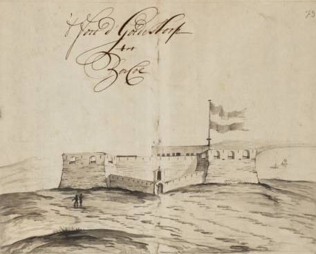 View of Fort Goede Hoop at Berku